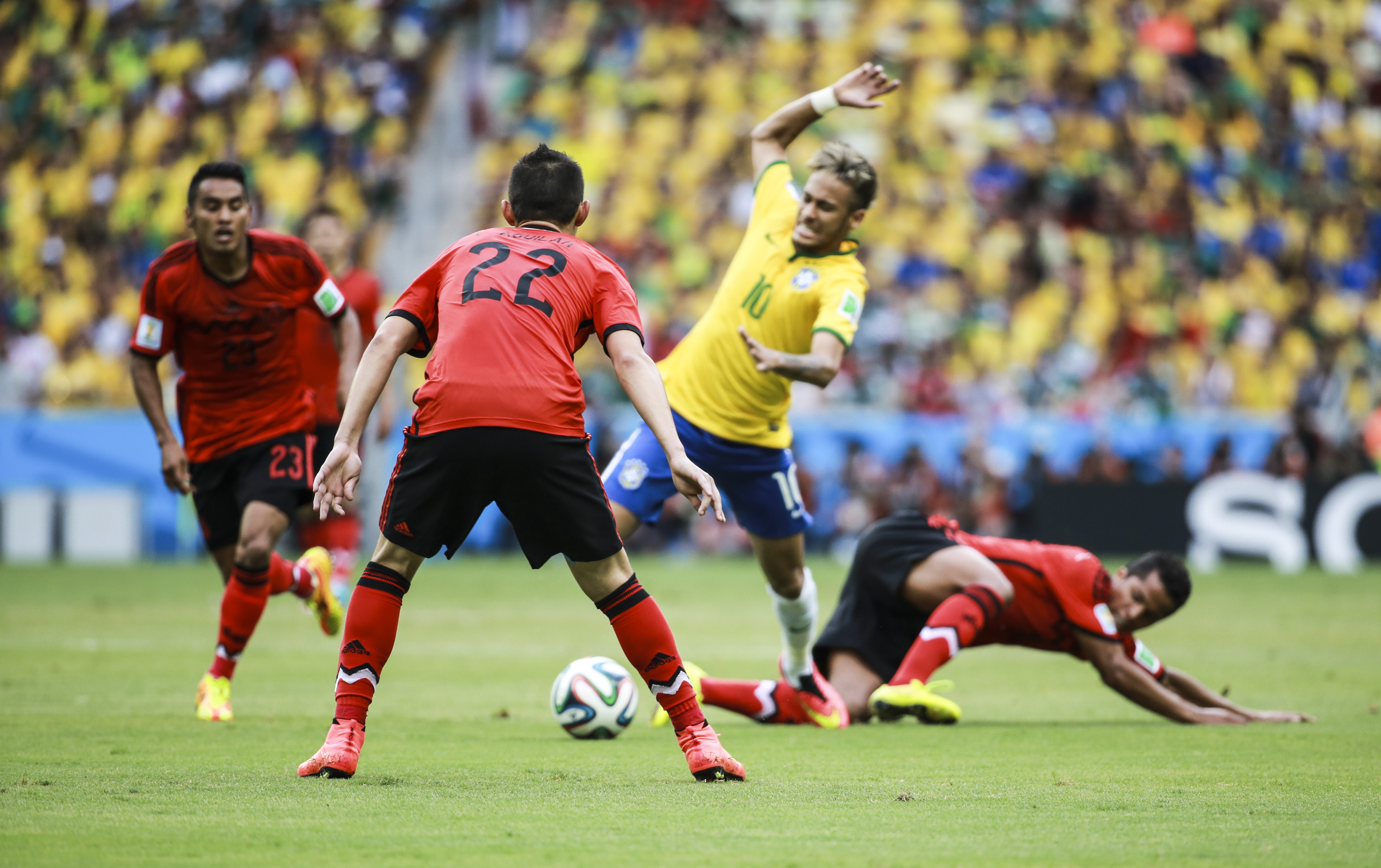 Brazil and Mexico match at the FIFA World Cup 2014-06-17